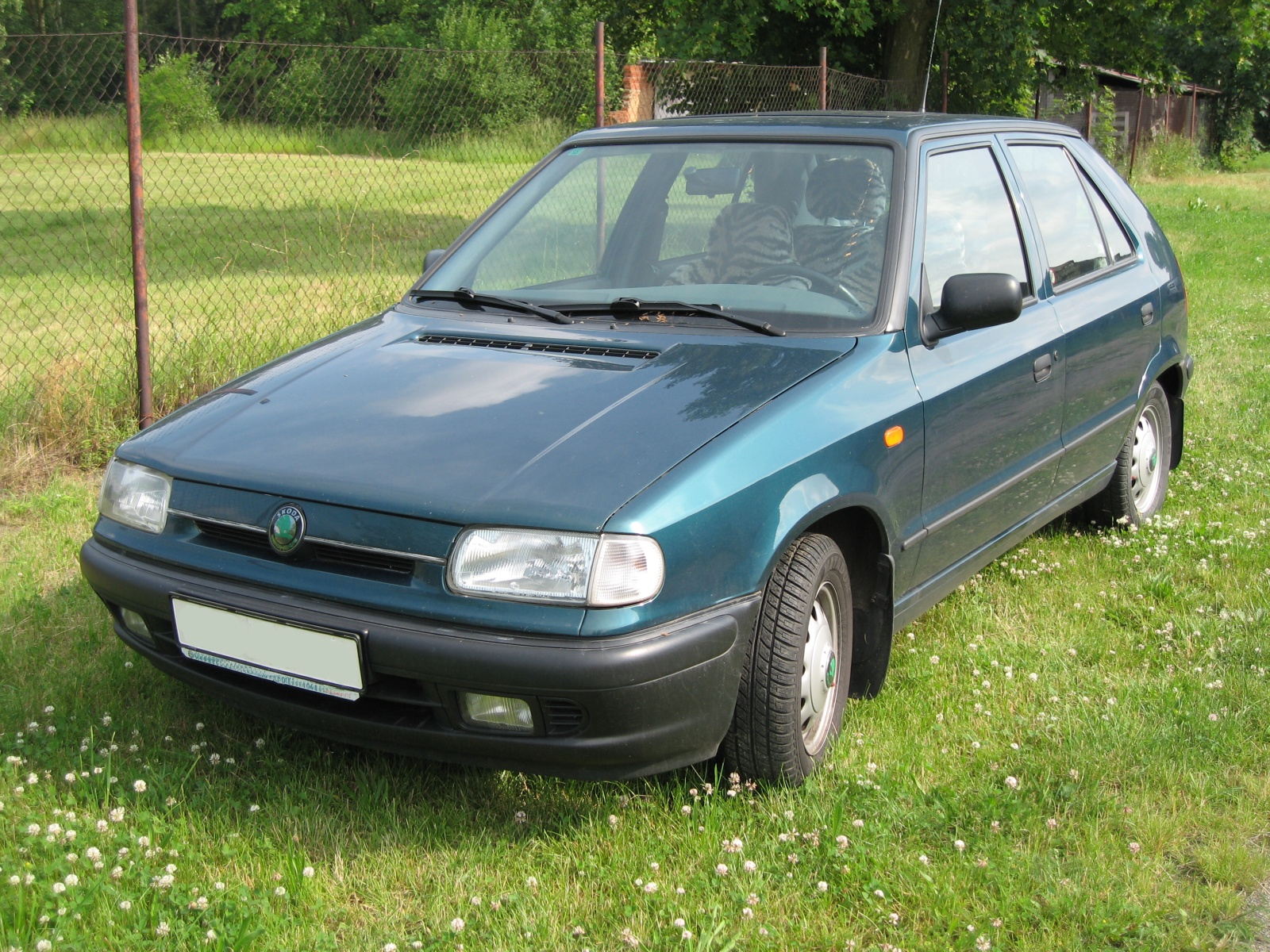 Škoda Felicia 1996 green